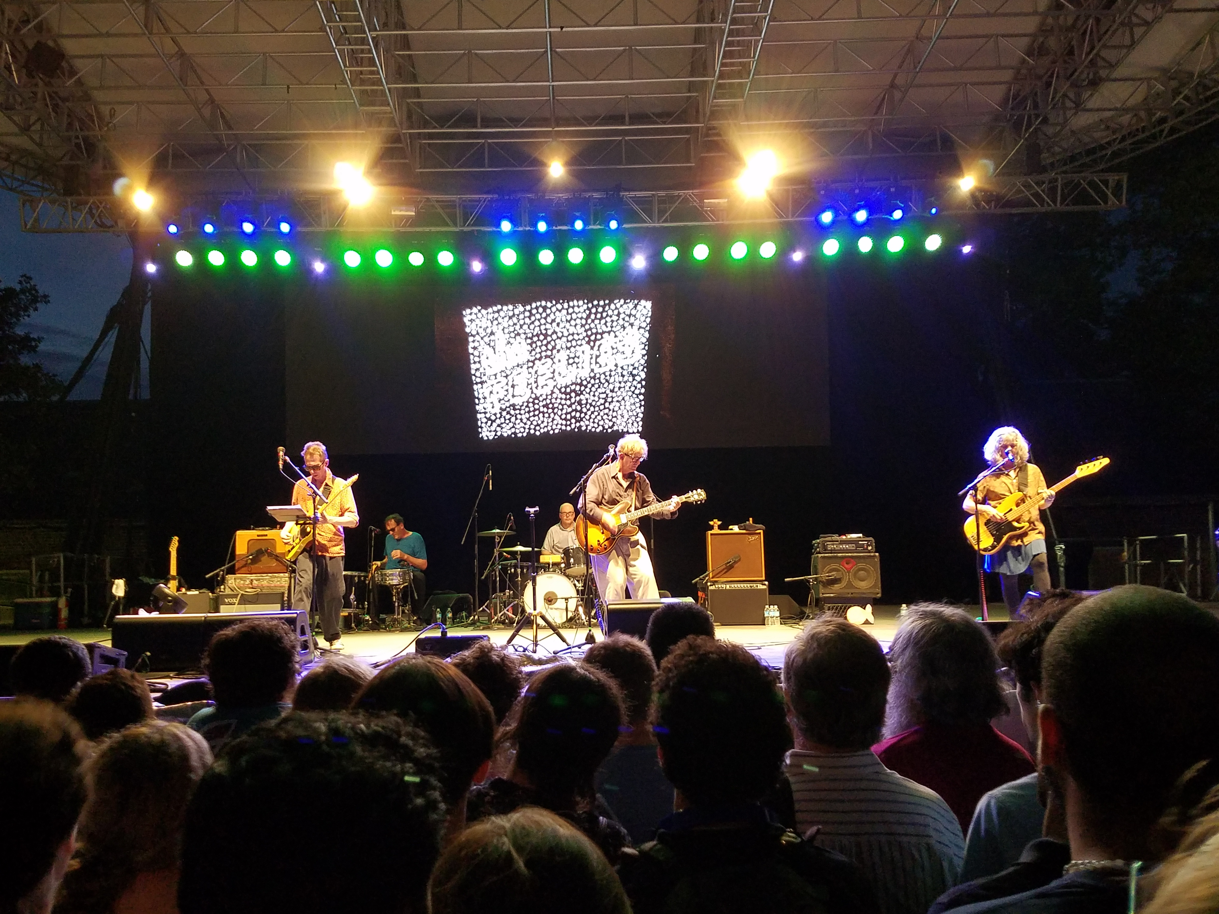 The Feelies live in Central Park.